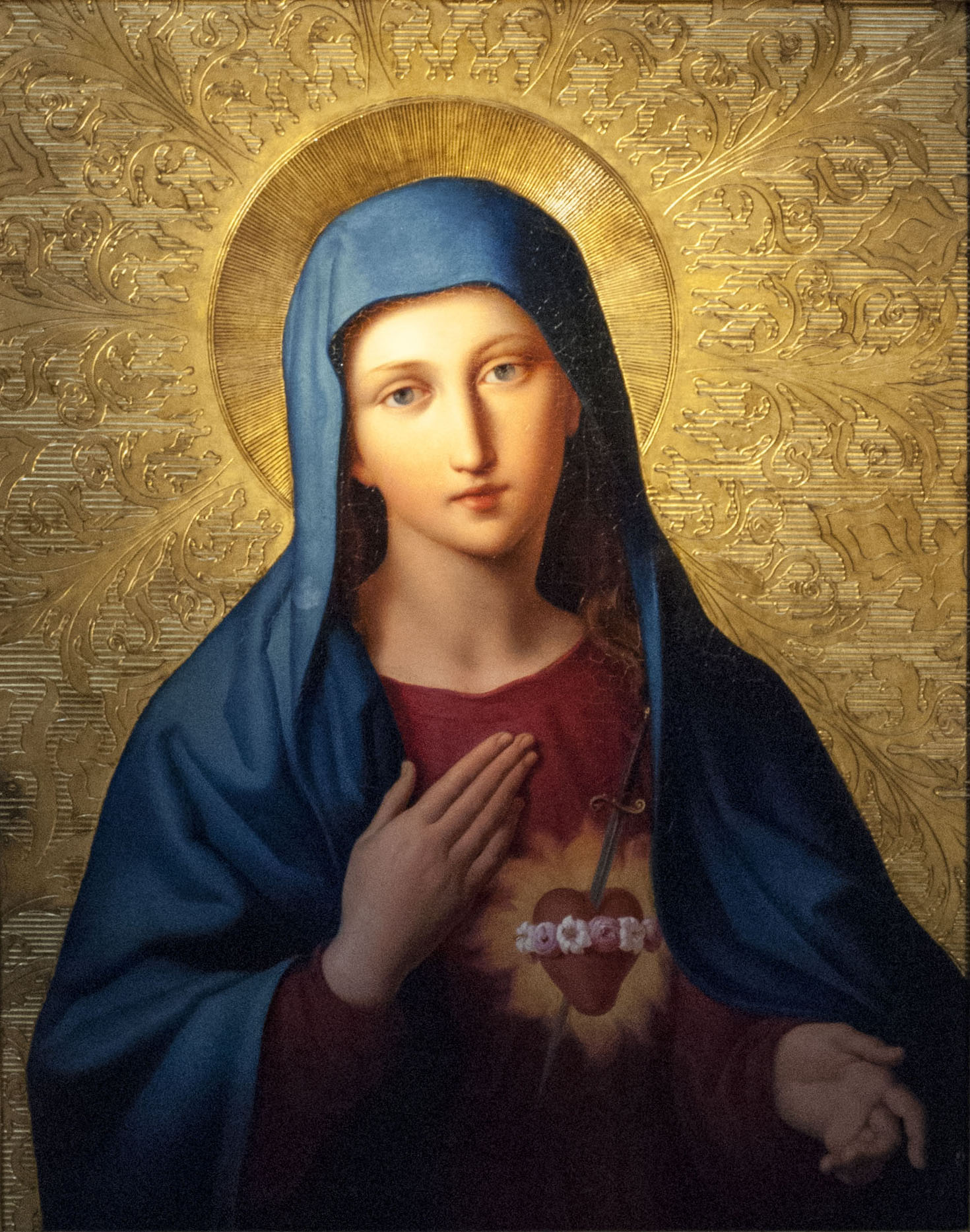 The Heart of Mary